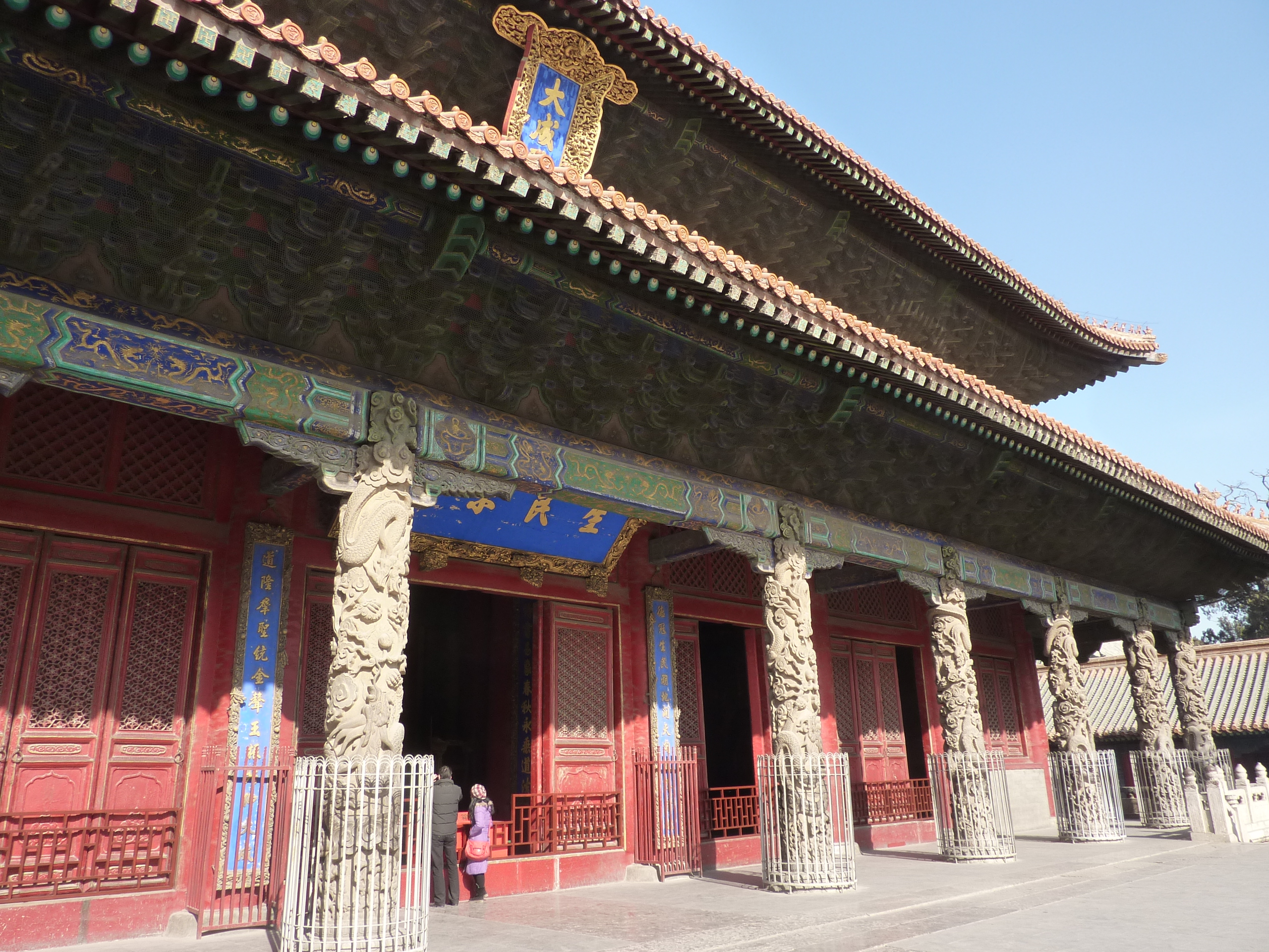 The Hall of Great Perfection (Dacheng Dian), the main hall of the Temple of Confucius, Qufu.